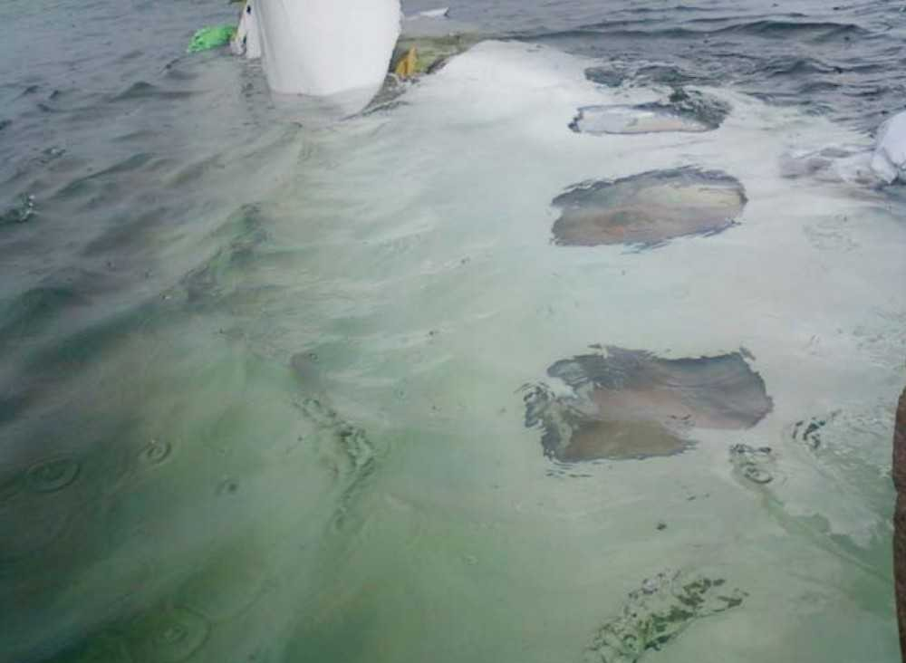 Merpati Nusantara Airlines PK-MZK wreckage